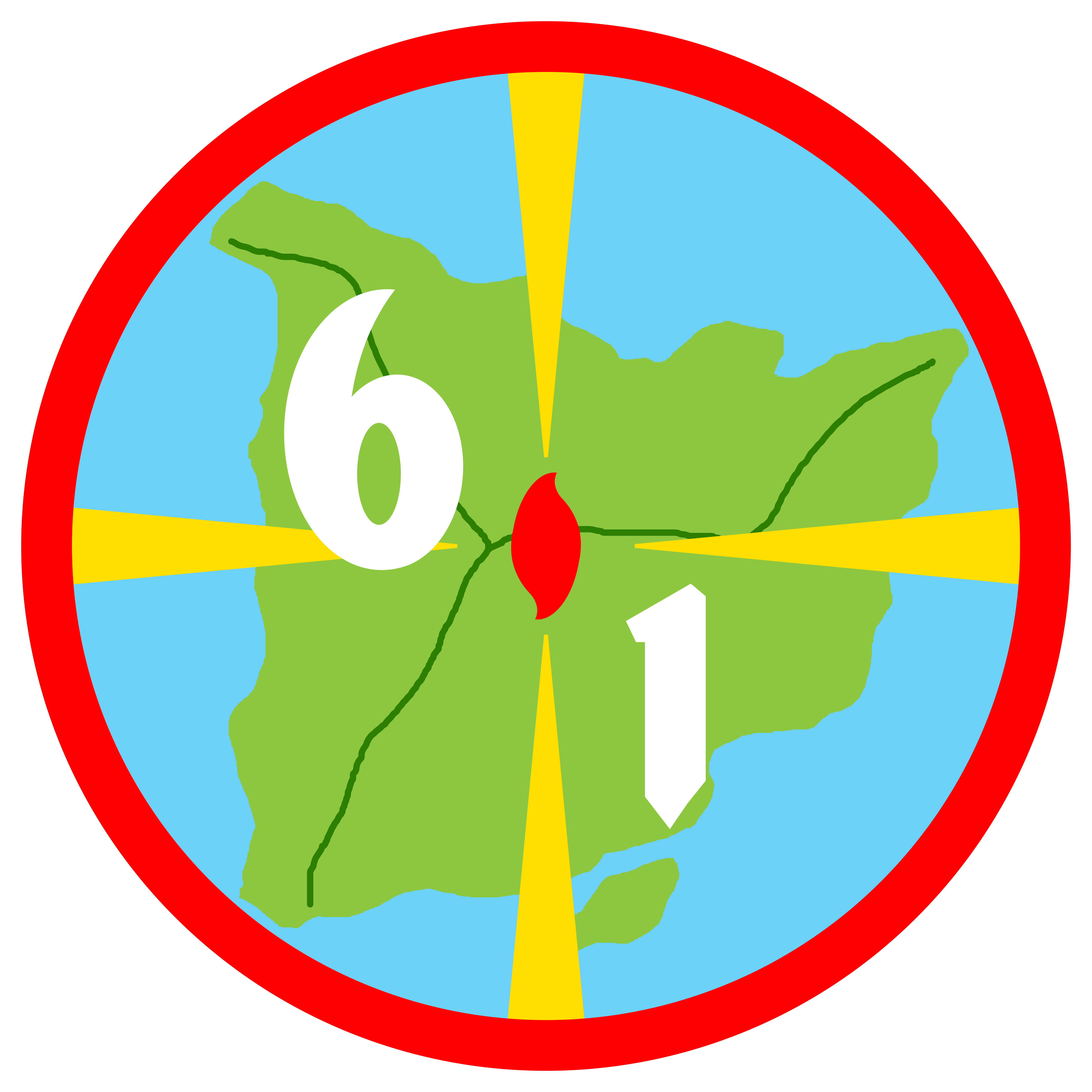 61st Philippine Division emblem from 1941-42, possibly not developed until late in that period or just after; color versions of this are a matter of record, and bronze version(s) of these emblems are seen on monuments around the Philippines.